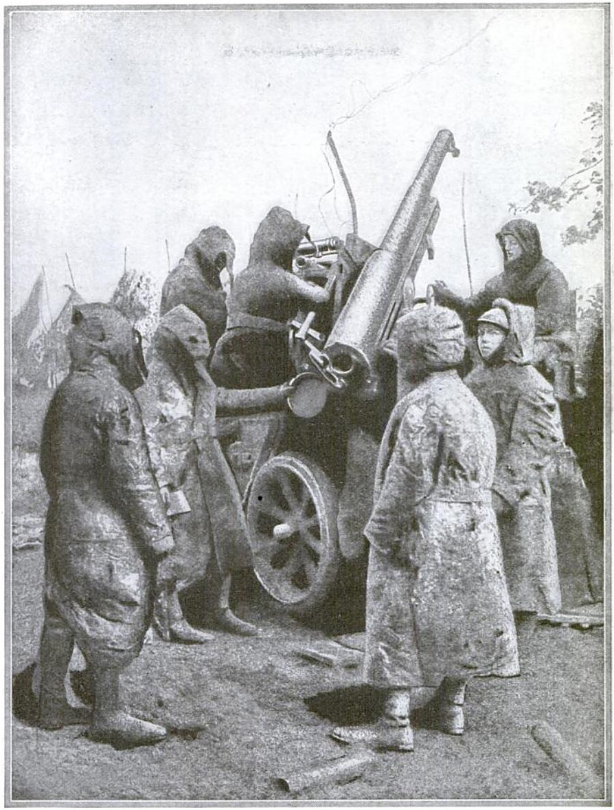 A group of artillery soldiers dressed in heavy colored robes to camouflage them from airplanes. They are said to appear as tree stumps and lichens to the overhead observer. Original image